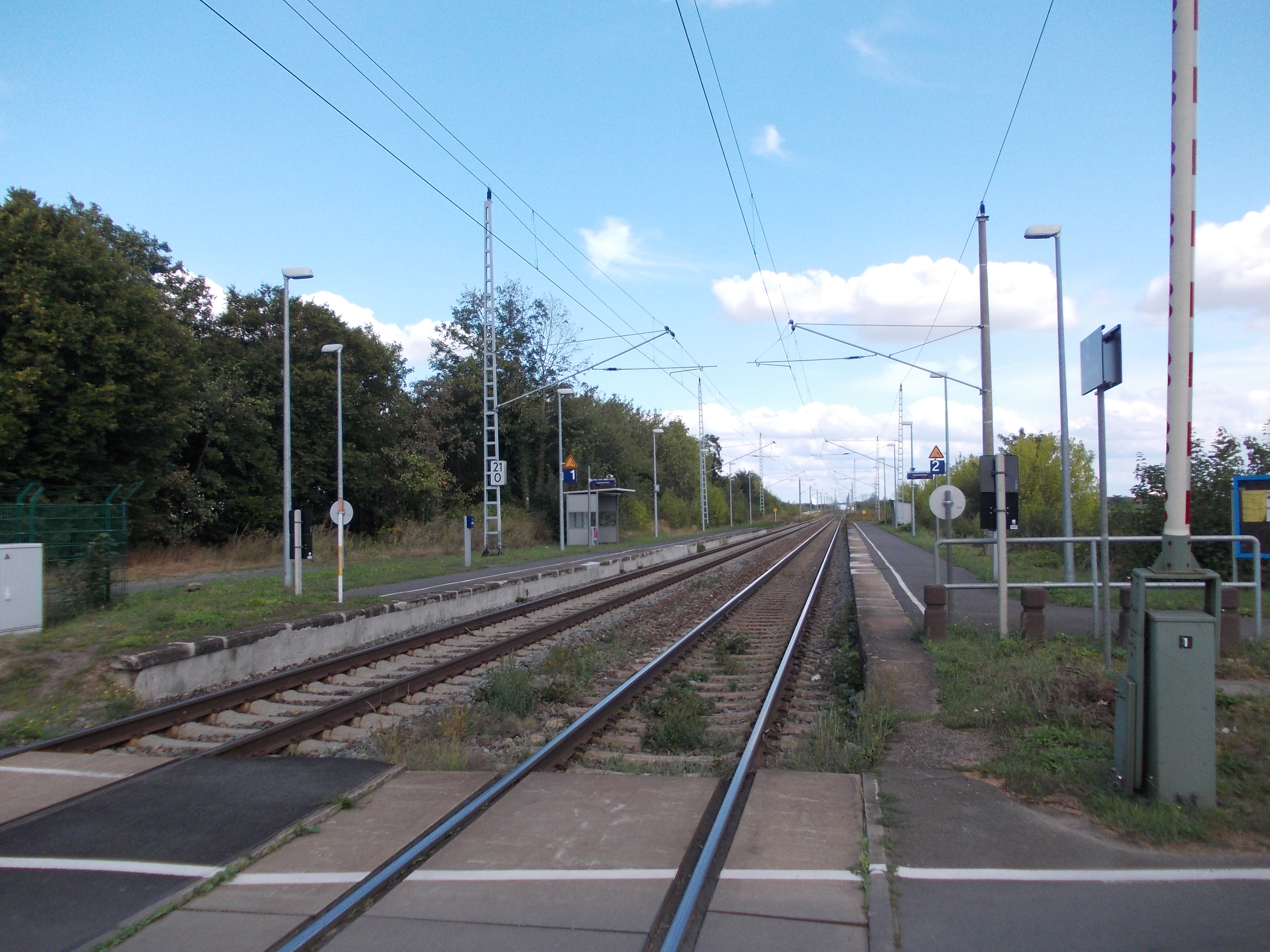 Kyhna train station at the Halle-Eilenburg railway line (Neukyhna, Nordsachsen district, Saxony)